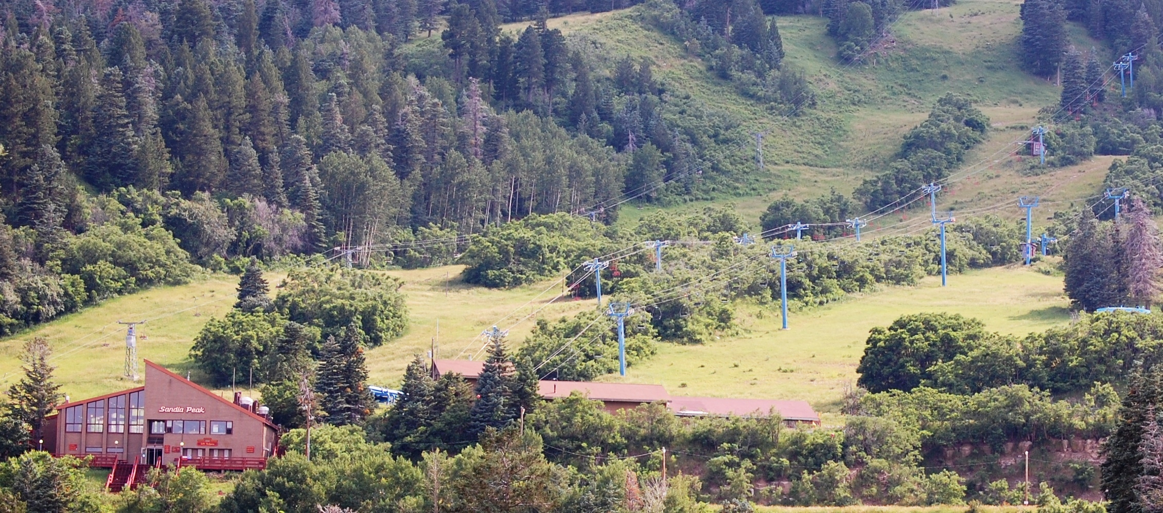 Photo of Sandia Peak Ski Area, from about 1/4 mile up Sandia Crest Road (see map). Photo take with Nikon D40, 55-200 mm f/4-5.6G ED AF-S DX Zoom-Nikkor Lens, cropped and "auto correct" with Microsoft Photo Editor.